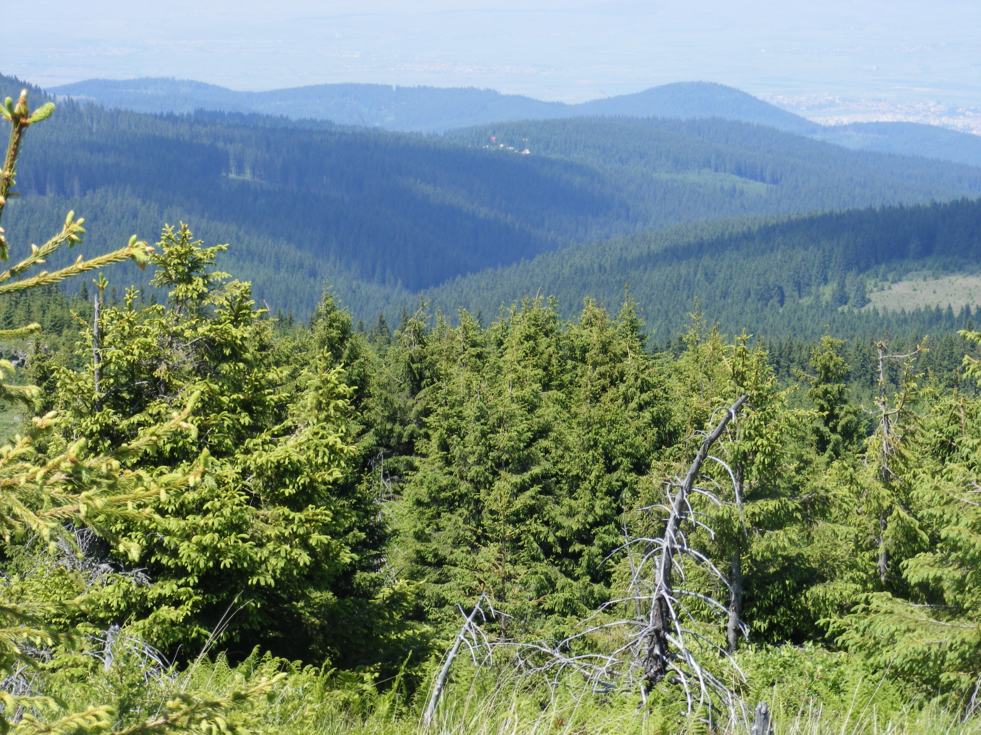 It was made on the Harghita, near the Kakukk-hegy